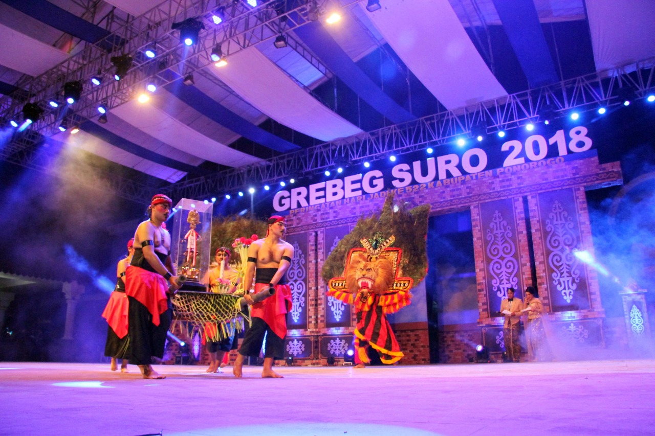 Grebeg Suro at Ponorogo Regency in 2018.